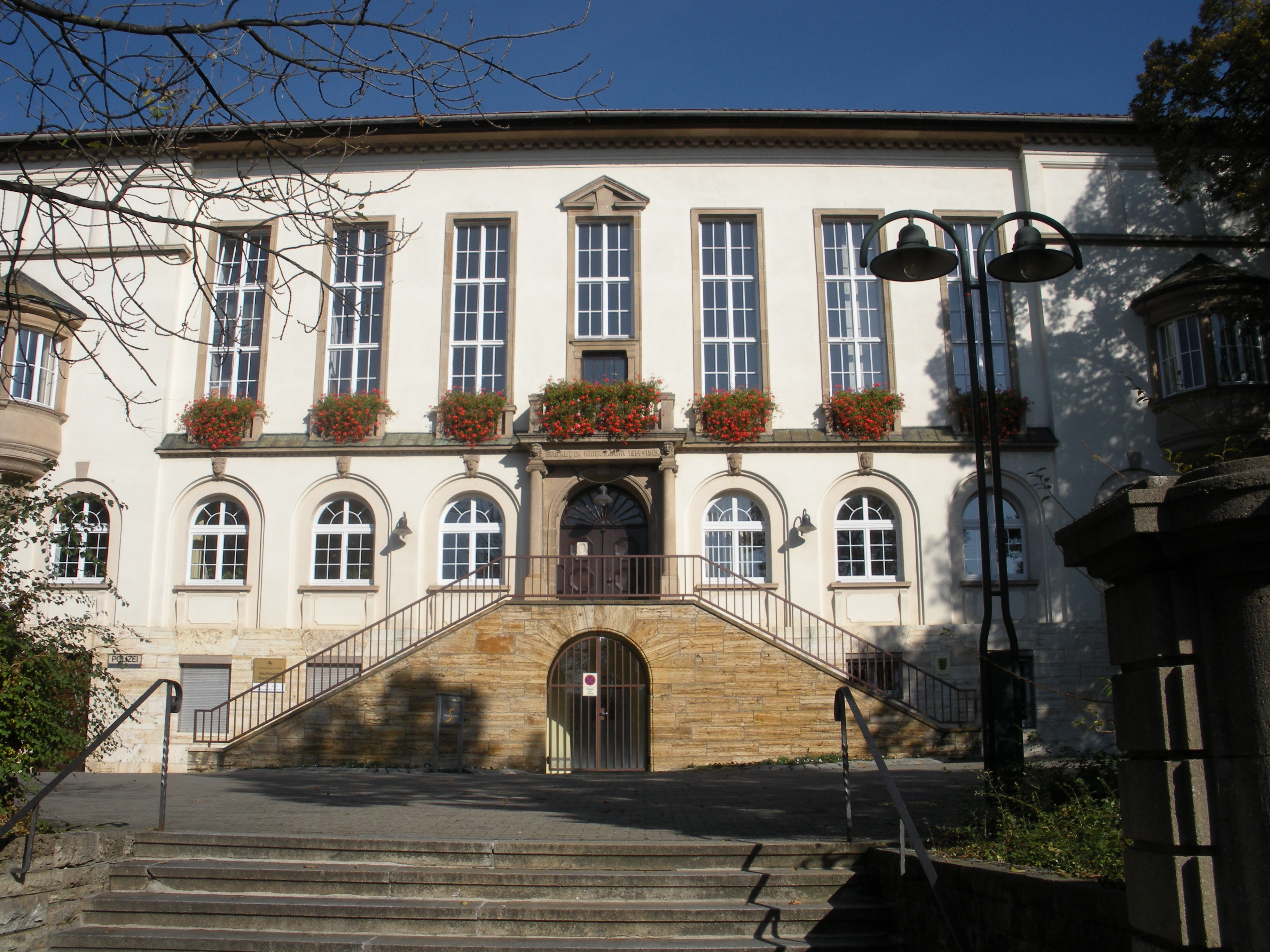 Town Hall in Stuttgart-Obertürkheim